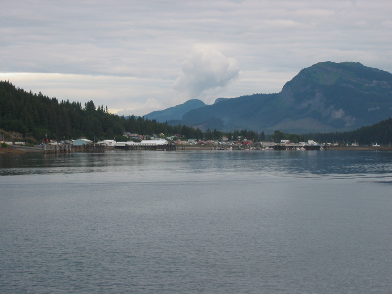 View of Hoonah, Alaska, taken from an inbound ferry.